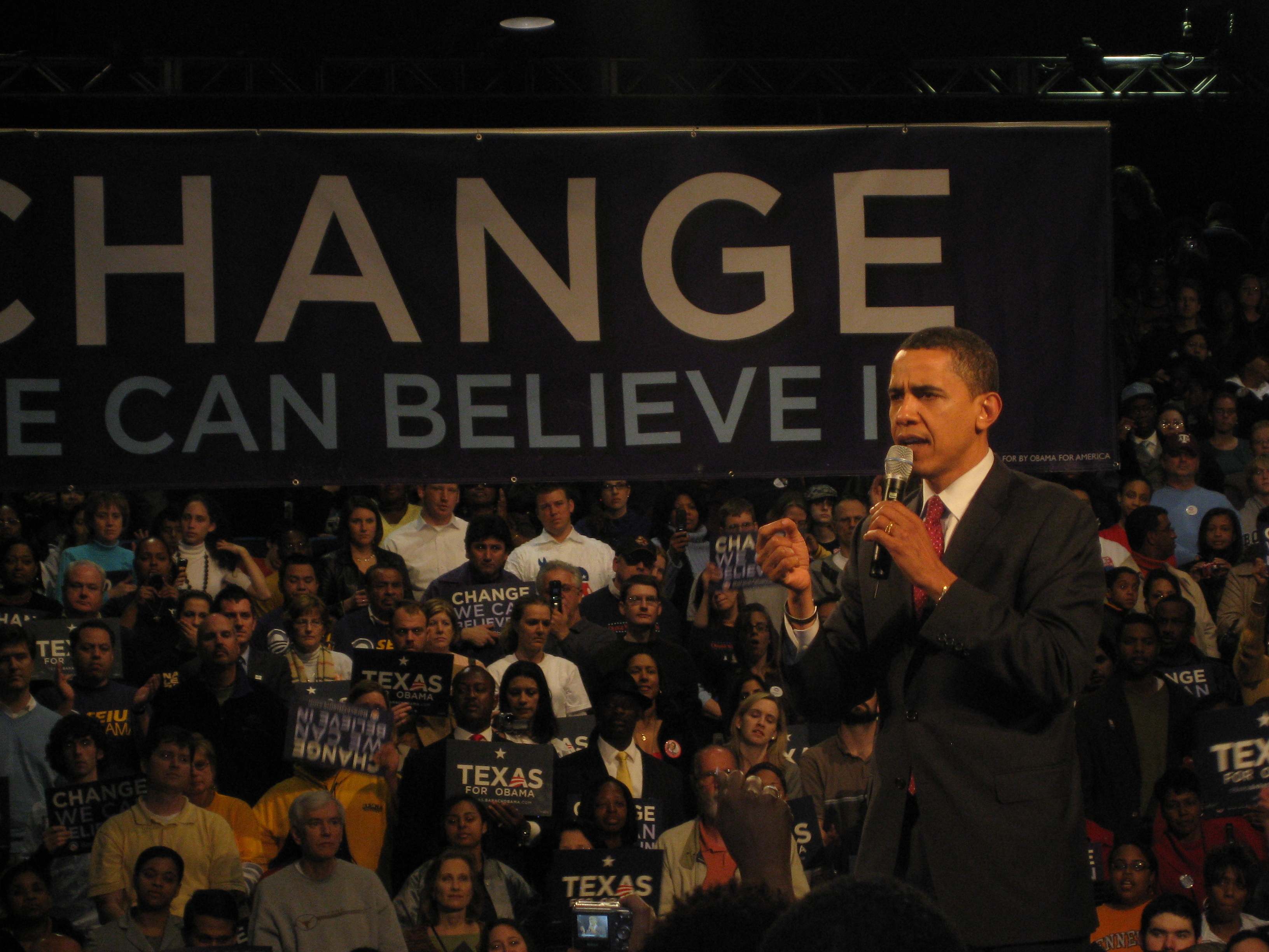 Barack Obama speaking in Houston, Texas on the eve of the TX primaries. Photo by Tim Bekaert.